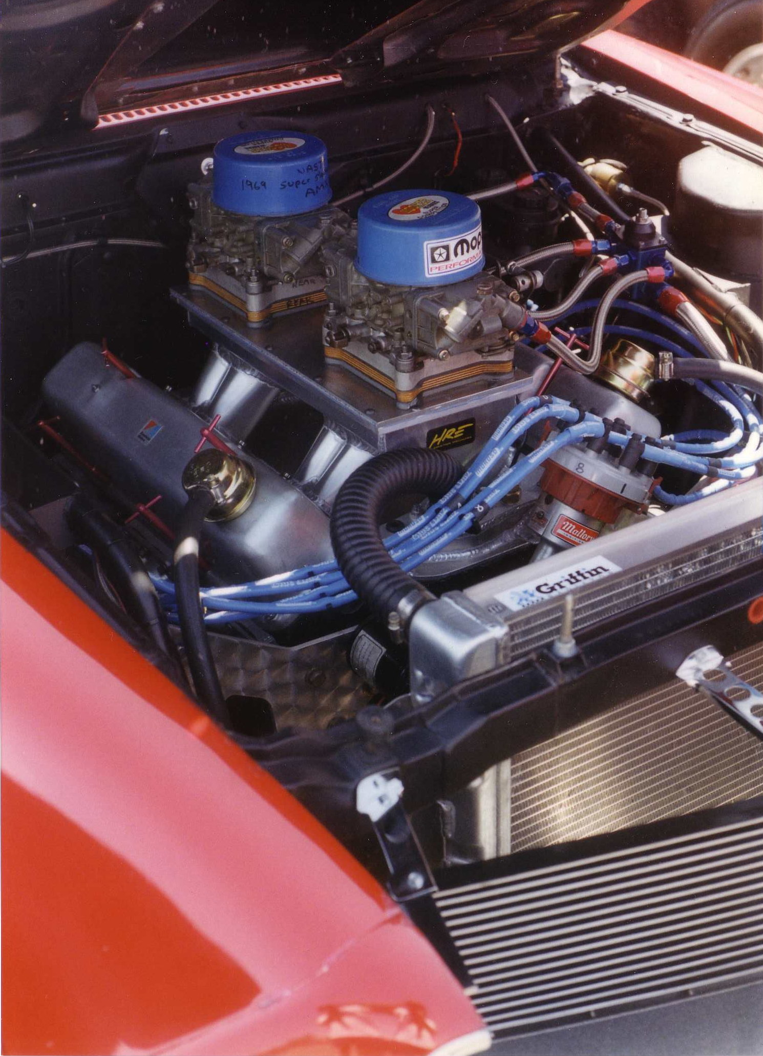 1969 AMX by American Motors Corporation (AMC) modified Super Stock engine with twin 4-barrel carburetors and numerous other performance parts. Photograph taken at the Annual Cecil all-AMC drag racing day and car show in Maryland.